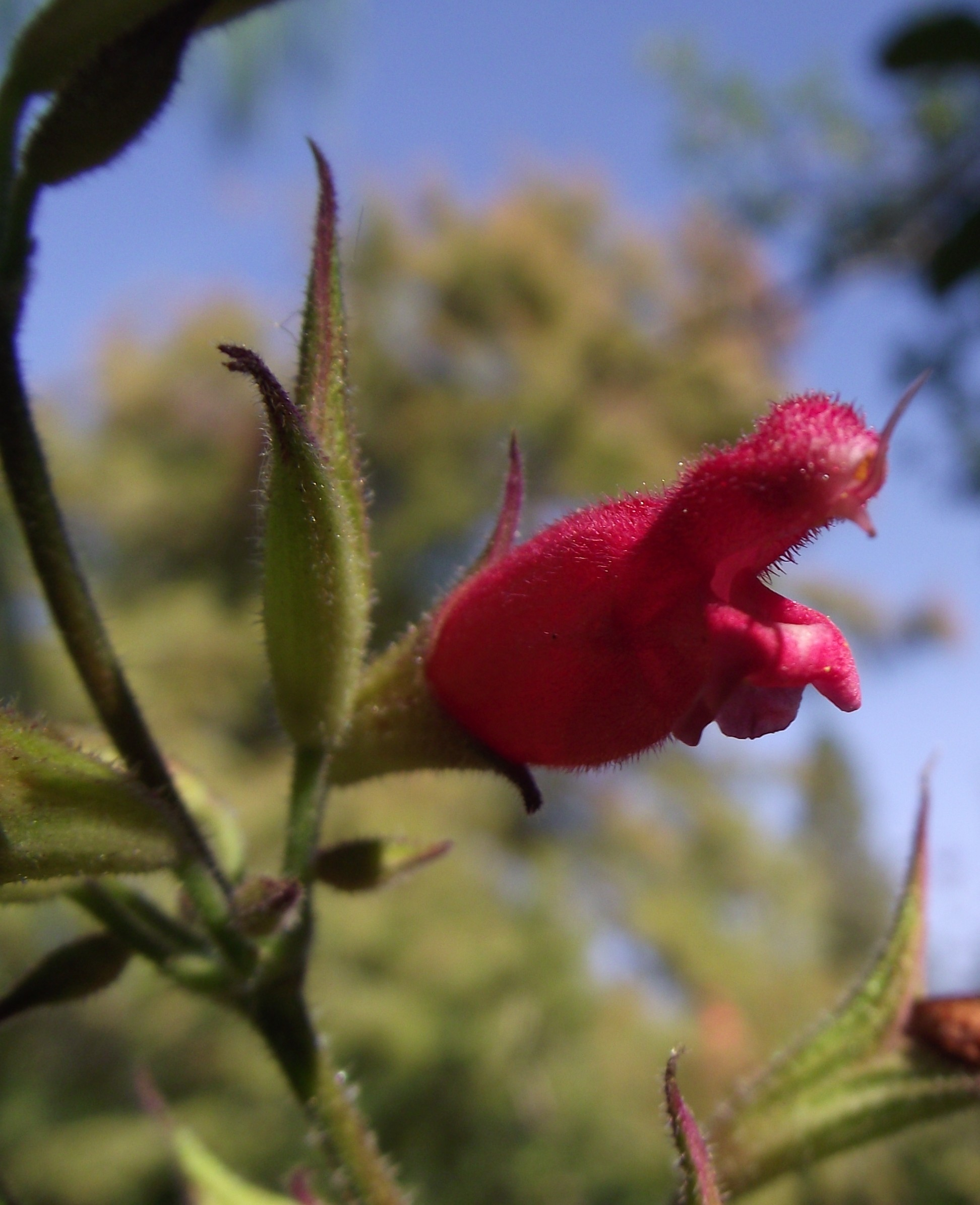 Salvia karwinskii in the UC Botanical Garden, Berkeley, California, USA. Identified by sign.